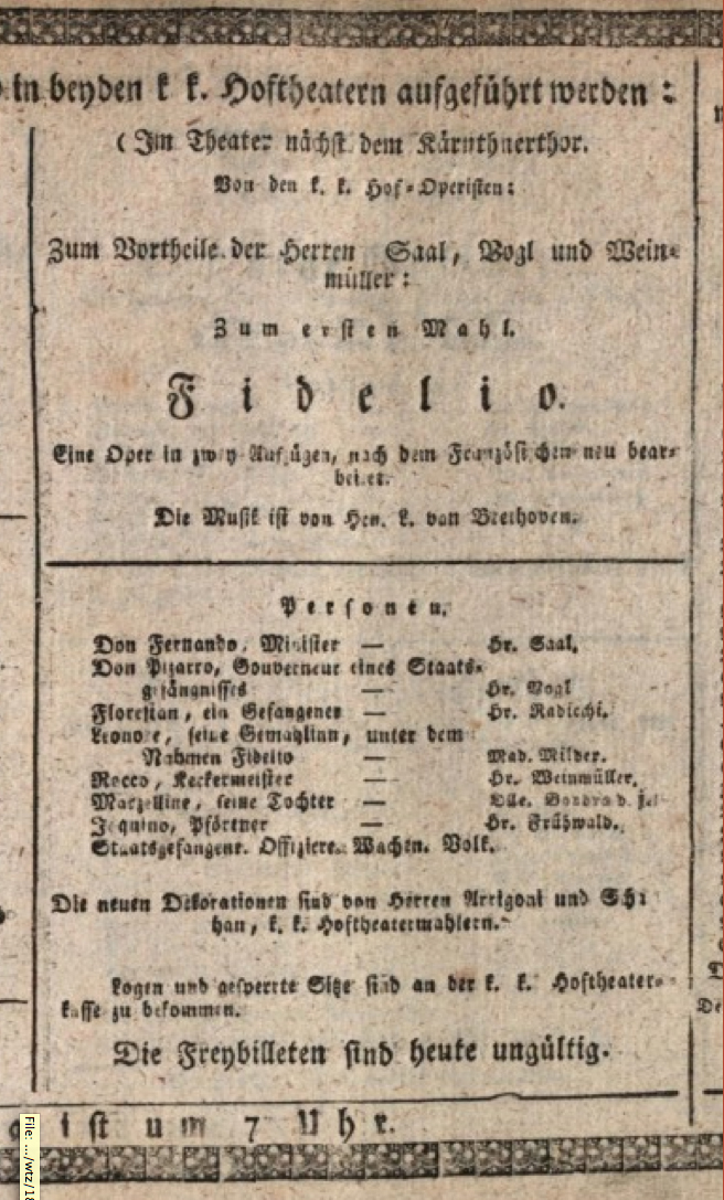 Playbill of the first performance of Ludwig van Beethoven's opera Fidelio (third and final version) on 23 May 1814 at the Theater am Kärntnertor